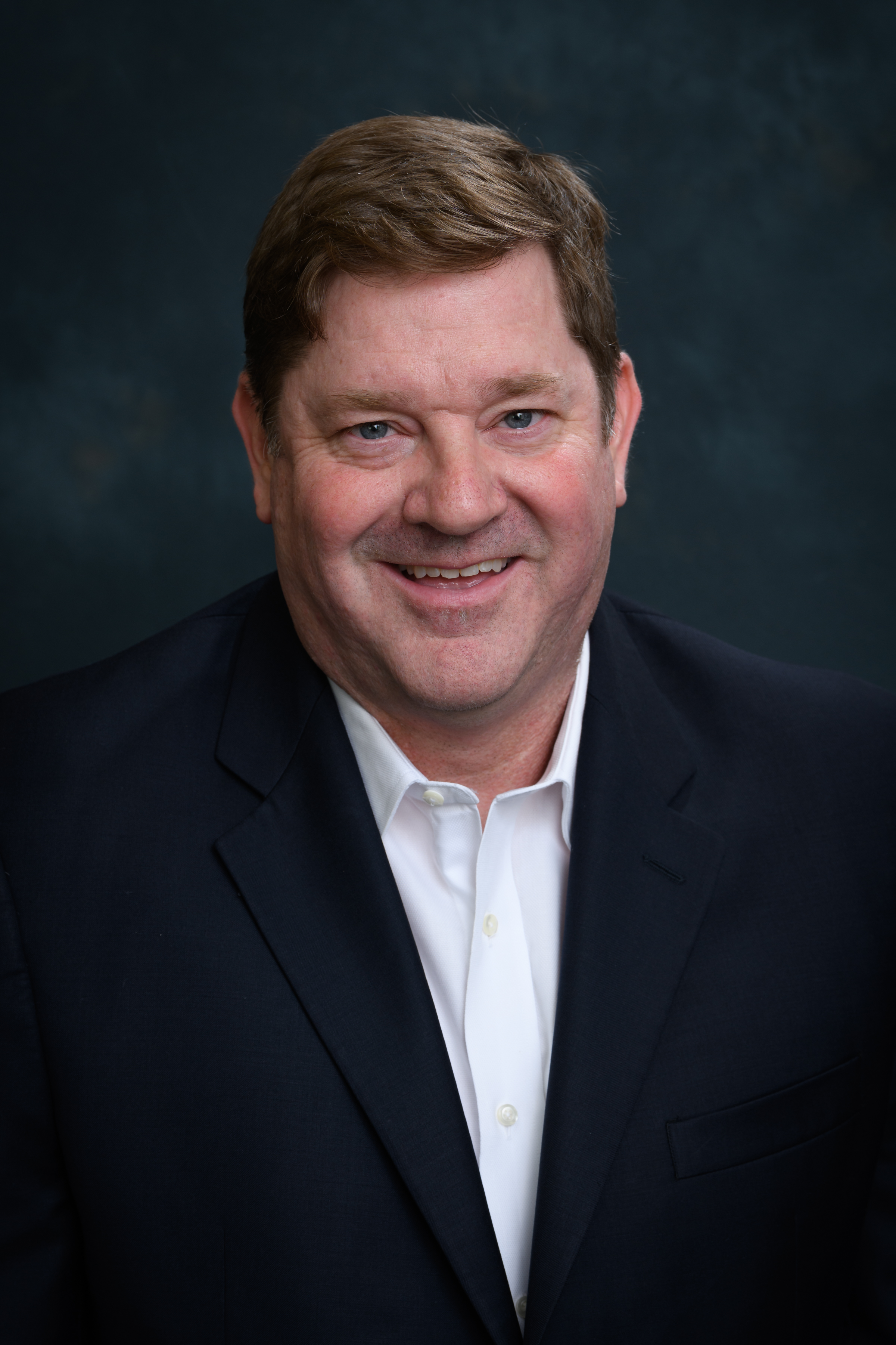 Dr. Richardson in March 2020